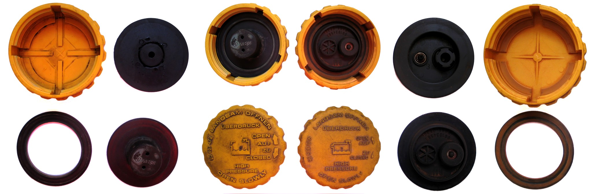 Plugs pressurized automotive cooling system. The cap has left the valves sealed by a lid, the cap has the right to view two valves, of which the valve to the left serves to avoid creating a vacuum, the valve of the right serves to regulate and limit the overpressure.